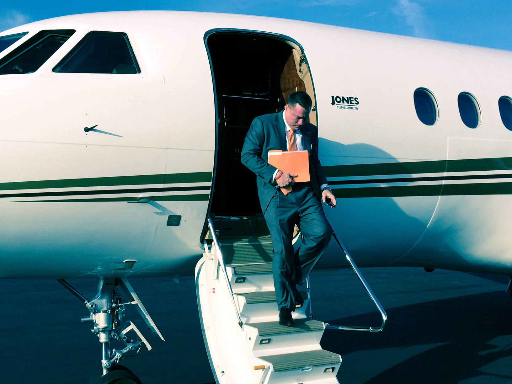 Tennessee Volunteers Head Coach Butch Jones exiting a plane.